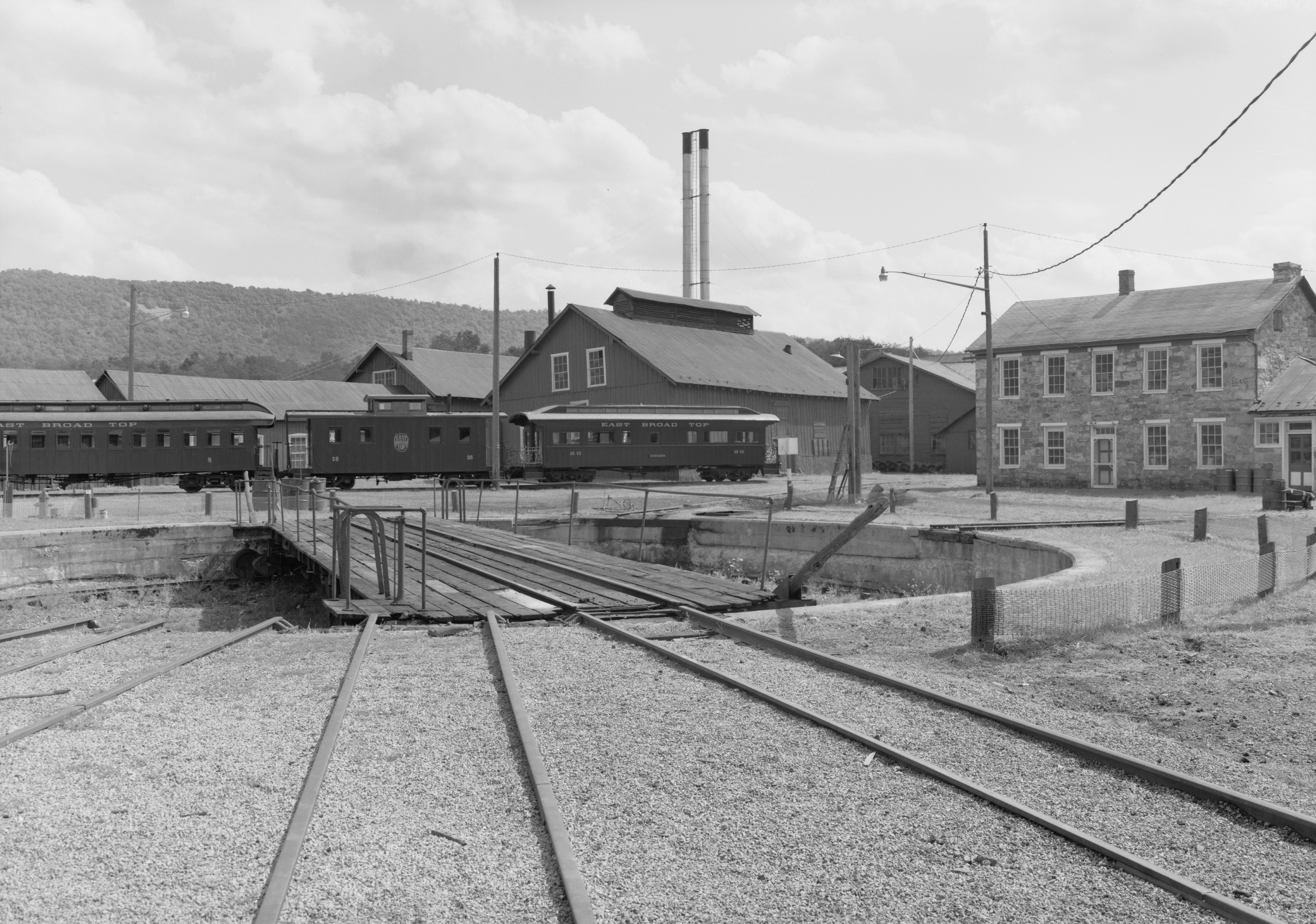 East Broad Top Railroad & Coal Company, Turntable. Visit for more info.